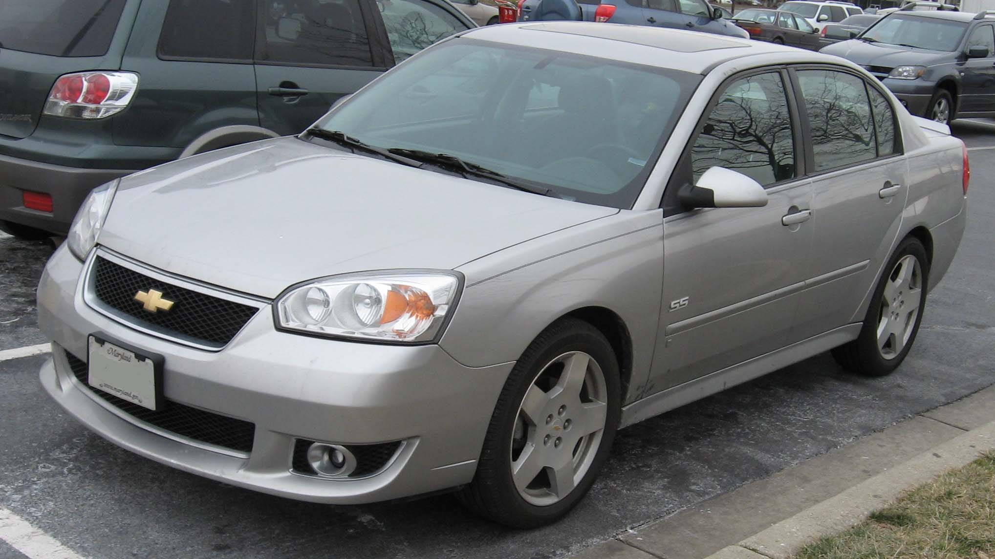 2006-2007 Chevrolet Malibu SS photographed in USA.